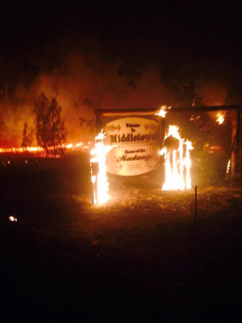 Middletown welcome sign on fire in the 2015 Napa County, California "Valley Fire" which started on 12 September 2015 and had burned over 40,000 acres in a day. Original photo caption: "Photo taken last night from one of our crews on the scene. Crews reporting downed lines all over the roads and the fire is not losing strength. Please stay away from the area and off highway 29 and 175 which were closed yesterday. The Valley fire has burned 40,000 acres and is 0% contained."